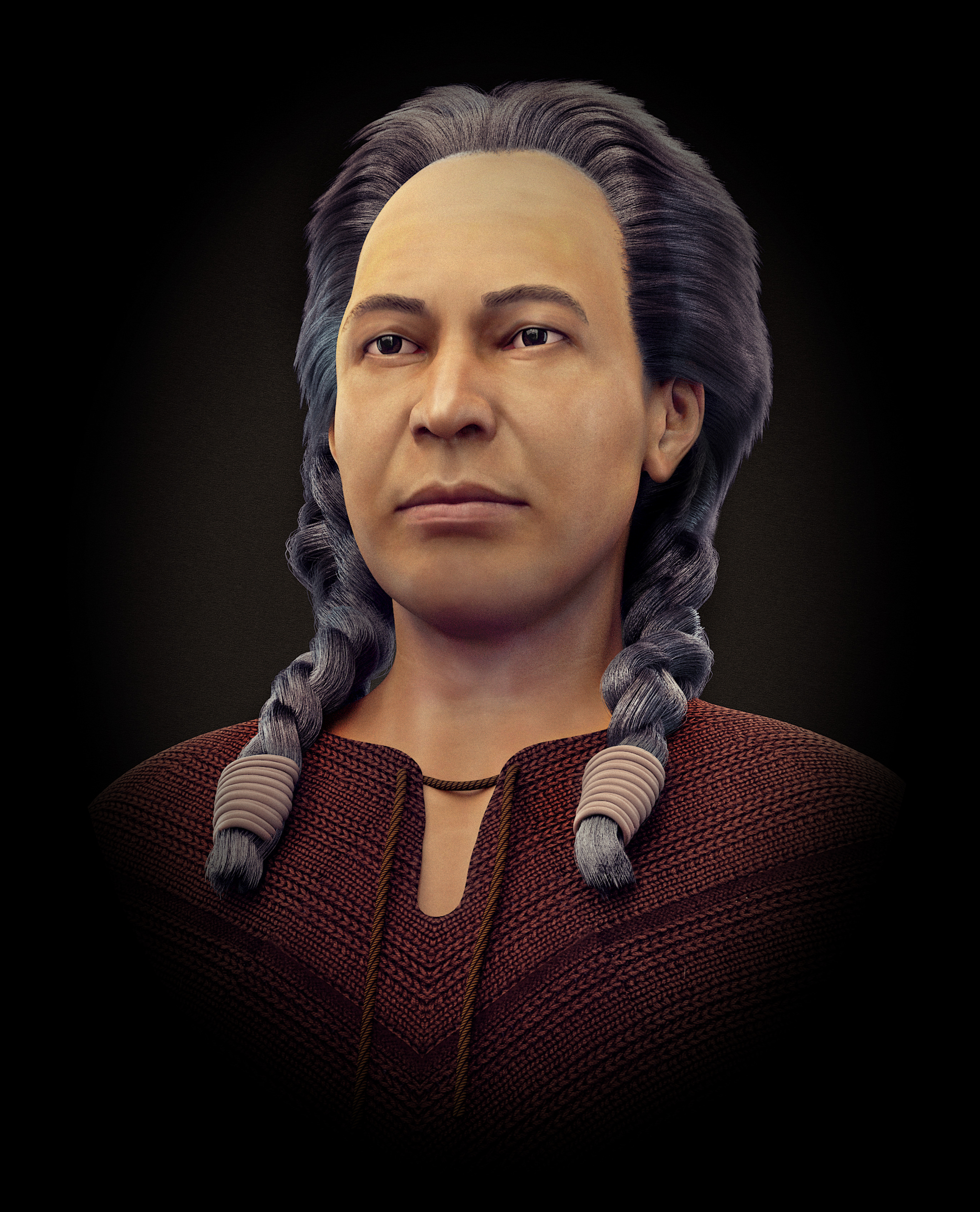 The forensic facial reconstruccion of the Lady of K'anamarka